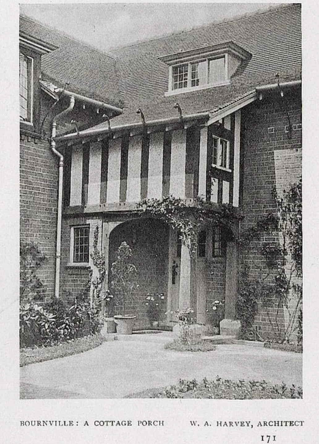 From The Studio, International Art Magazine. 1901. 24 Linden Road, Bournville, Birmingham